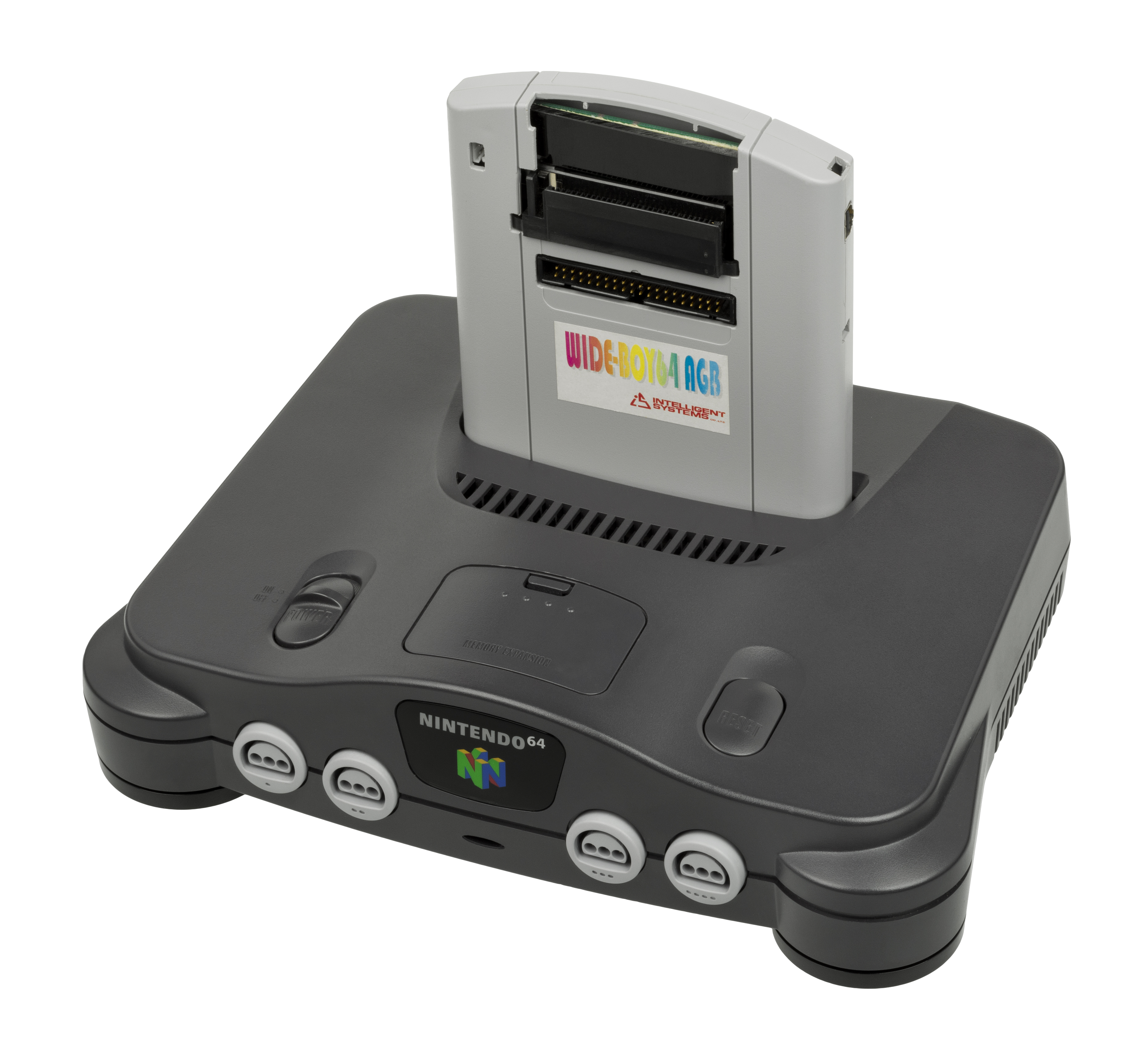 An N64 with a Wide Boy 64 AGB plugged into it. The Wide Boy 64 AGB is an adapter that allows you to play Game Boy Advance video games through an Nintendo 64 console. A developer tool made by Intelligent Systems, the Wide Boy 64 AGB was for publishers to play handheld games through a TV, meant to avoid the strain of looking at a small screen for long hours.